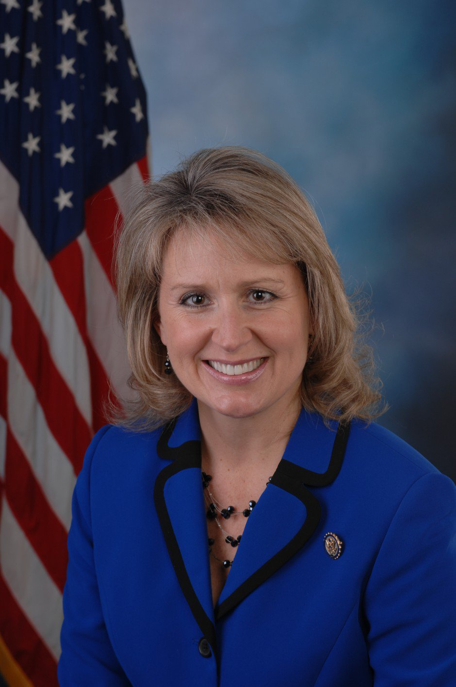 Official portrait of Rep. Renee Ellmers